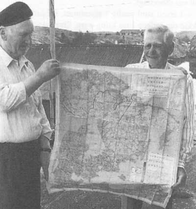 Olai Hillersoy